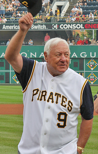 Bill Mazeroski tops his cap during the 1960 World Series champs anniversary celebration. © 2010 Brock Fleeger